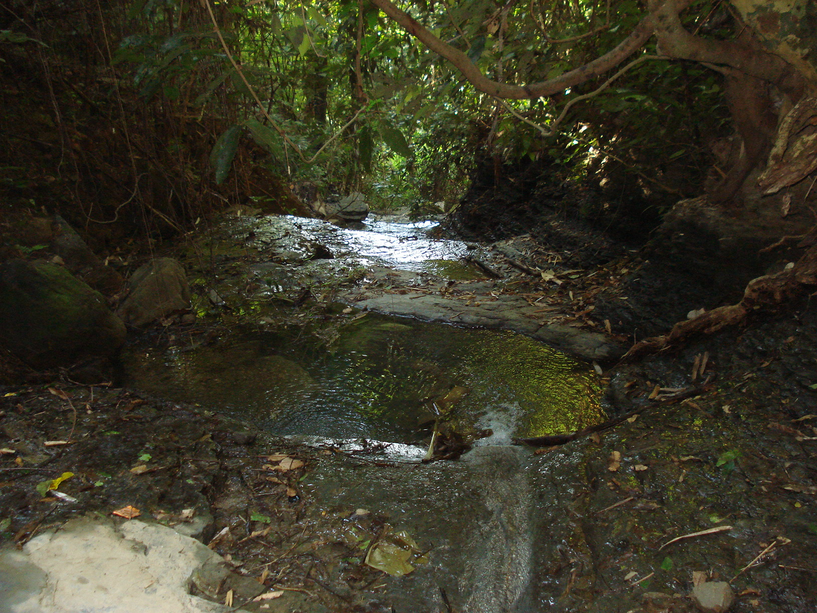 A fall on the way to Keokrodang from Boga Lake.